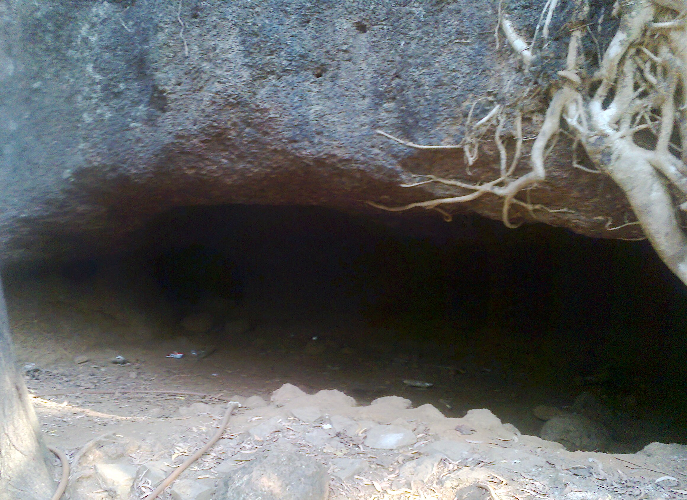 pilikula nisargadama at manglore,karnataka